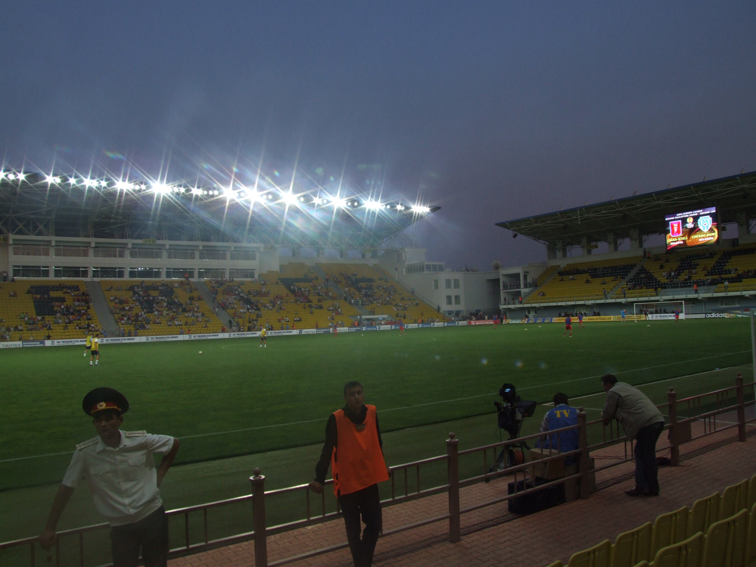 Sheriff Tiraspol stadium by night